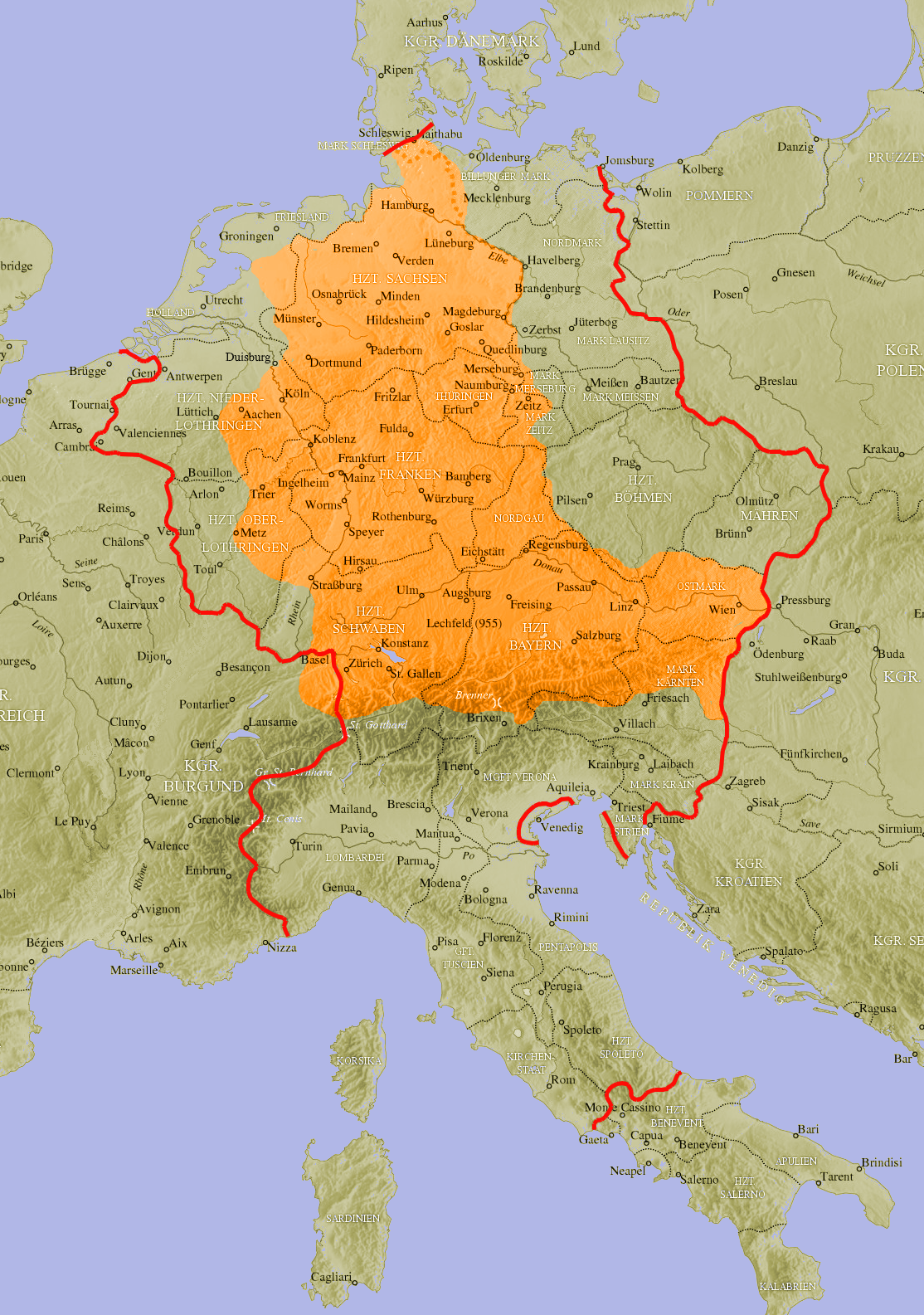 The area in which German was spoken around AD 962 (the ascension of Otto the Great, taken as the establishment of the Holy Roman Empire). Based on: Geschichte der Deutschen Sprache, Volk und Wissen, Volkseigener Verlag, Berlin 1983.